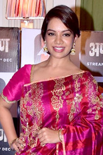 Nidhi Singh graces the trailer launch of Alt Balaji’s Apaharan